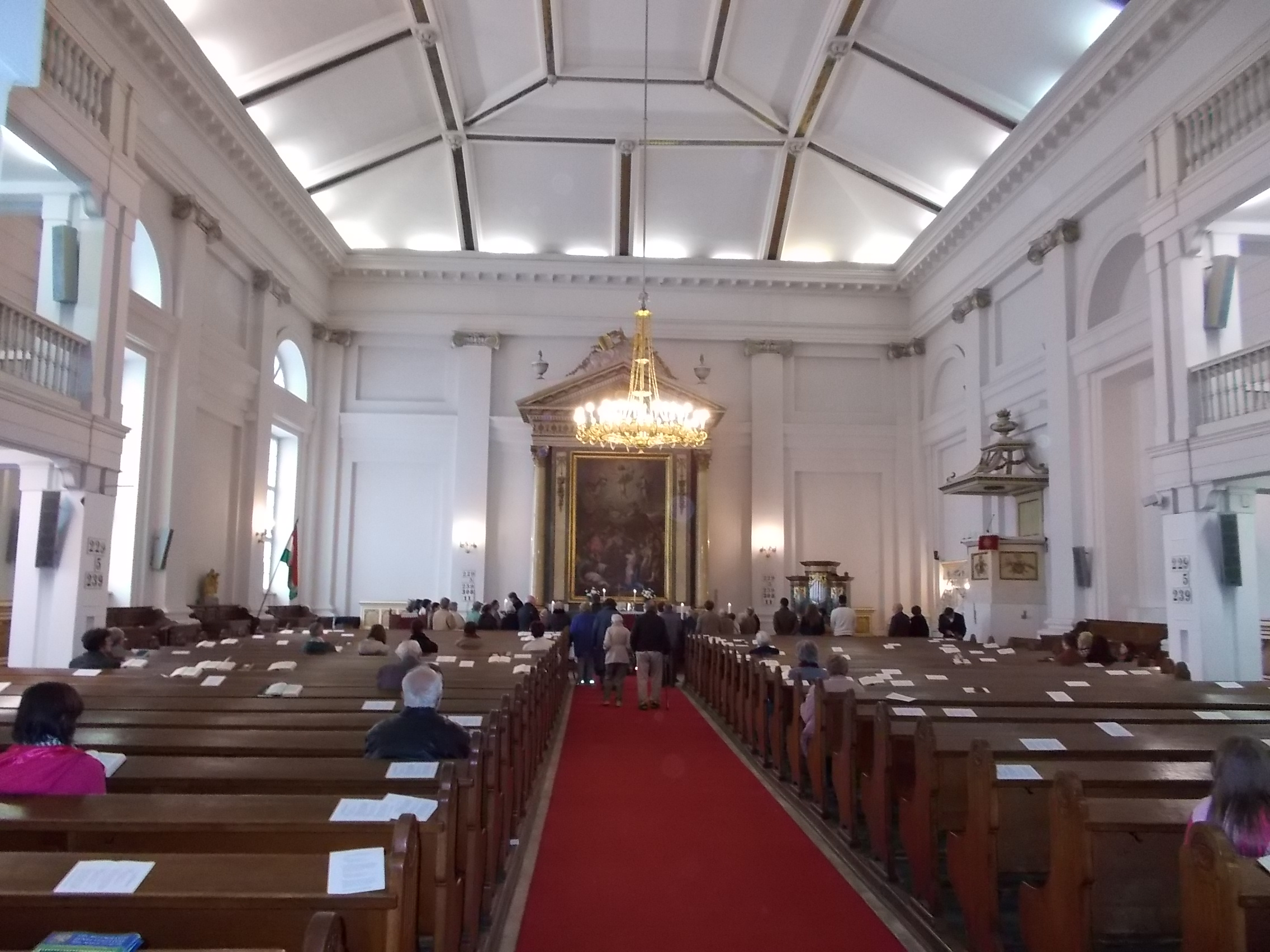 Lutheran church by József Hild (1808) - 5 Ferenc Deák Square, Budapest District V